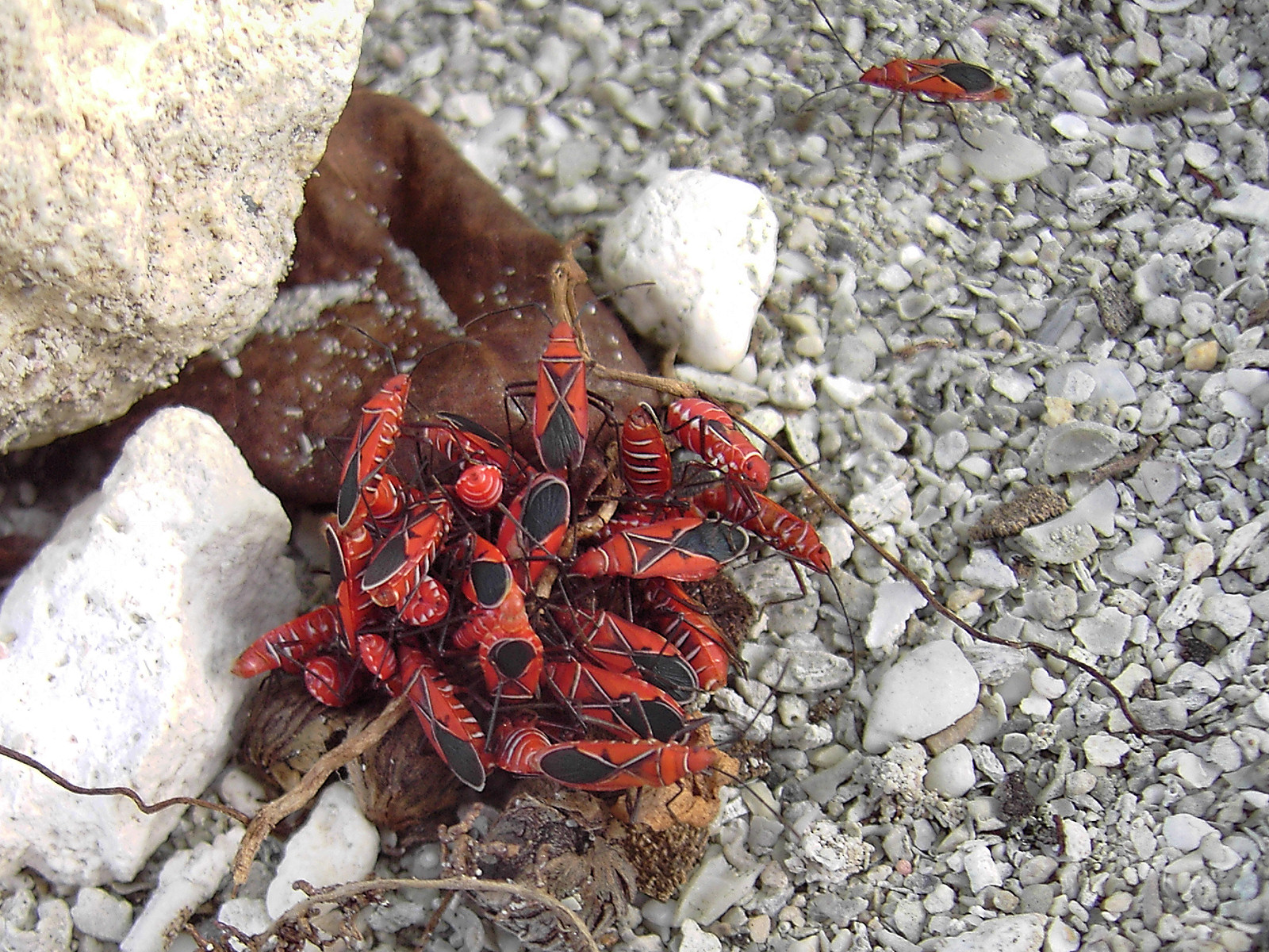 St. Andrew's Cotton Stainers, feeding on seeds of the Portia tree. Picture take at the beach of Le Gosier, Guadeloupe, France.